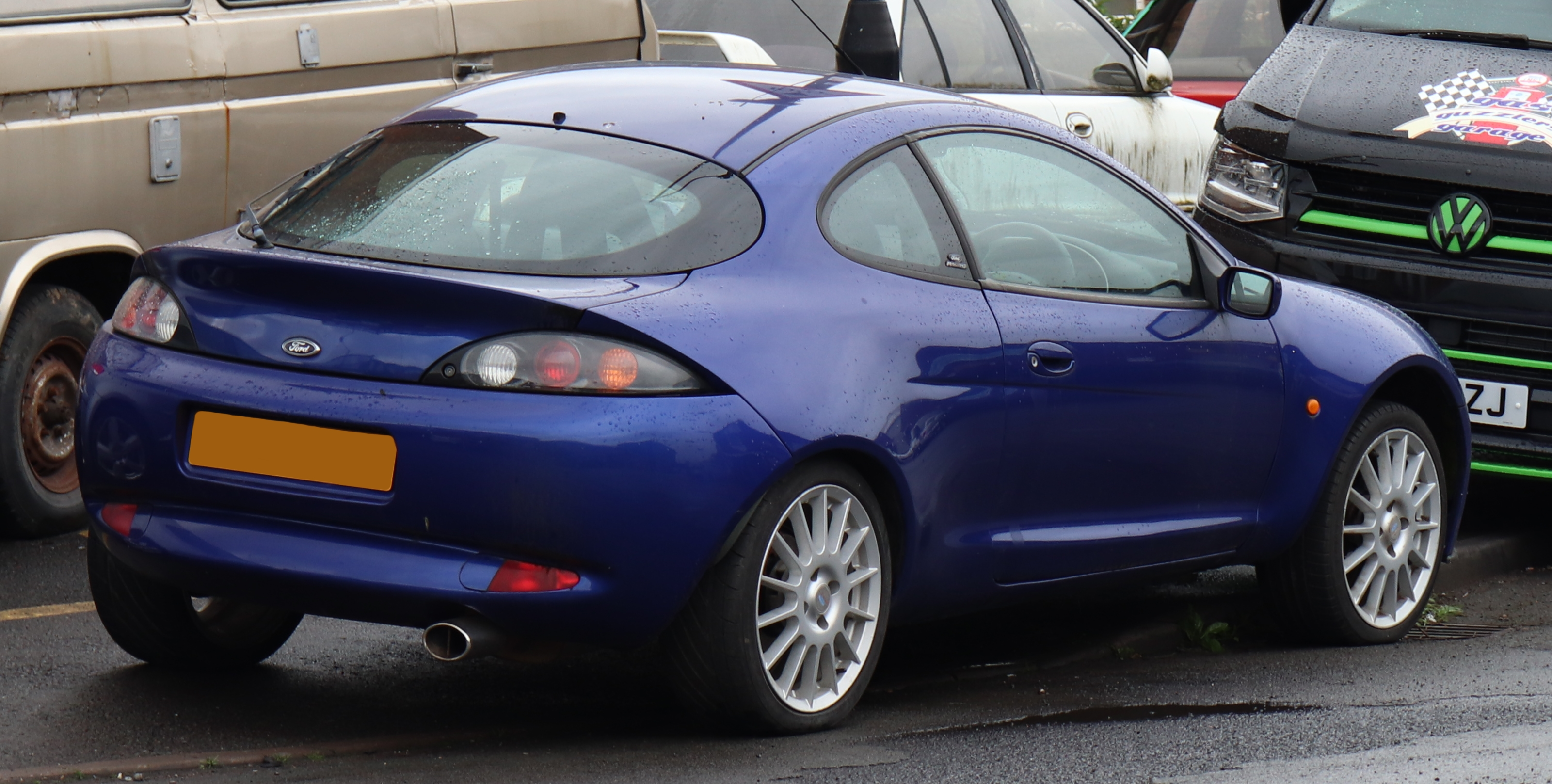 2000 Ford Racing Puma 16V 1.7 Rear Taken in Leamington Spa